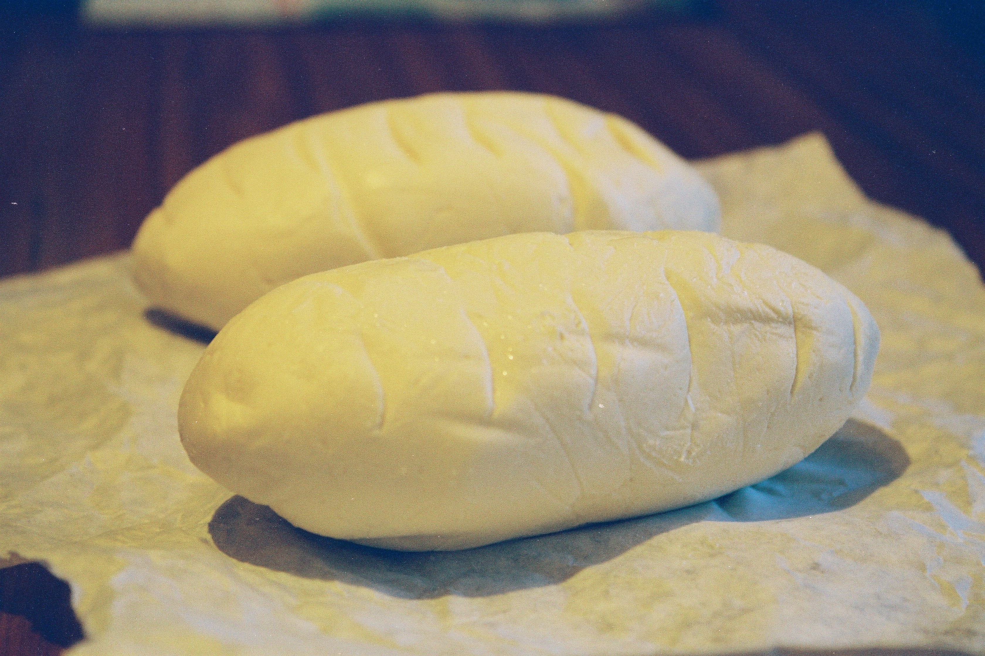 Traditional butter.